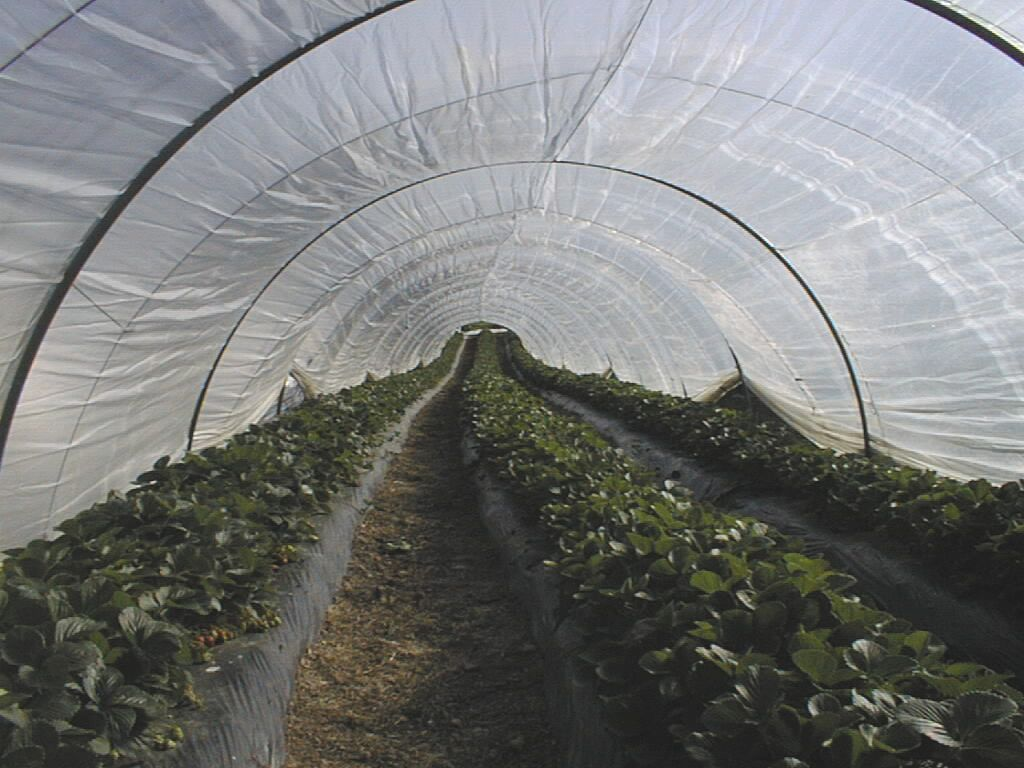 High tunnel for strawberry ("Gariguette" variety) plasticulture in Périgord, Aquitaine, France.